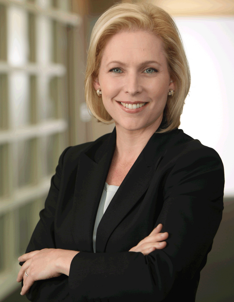 United States Senator Kirsten Gillibrand